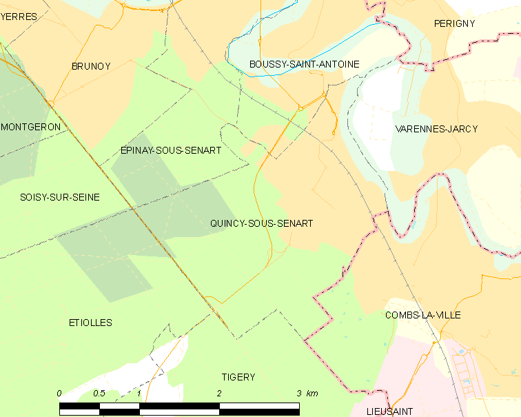 Map of French municipality Quincy-sous-Sénart